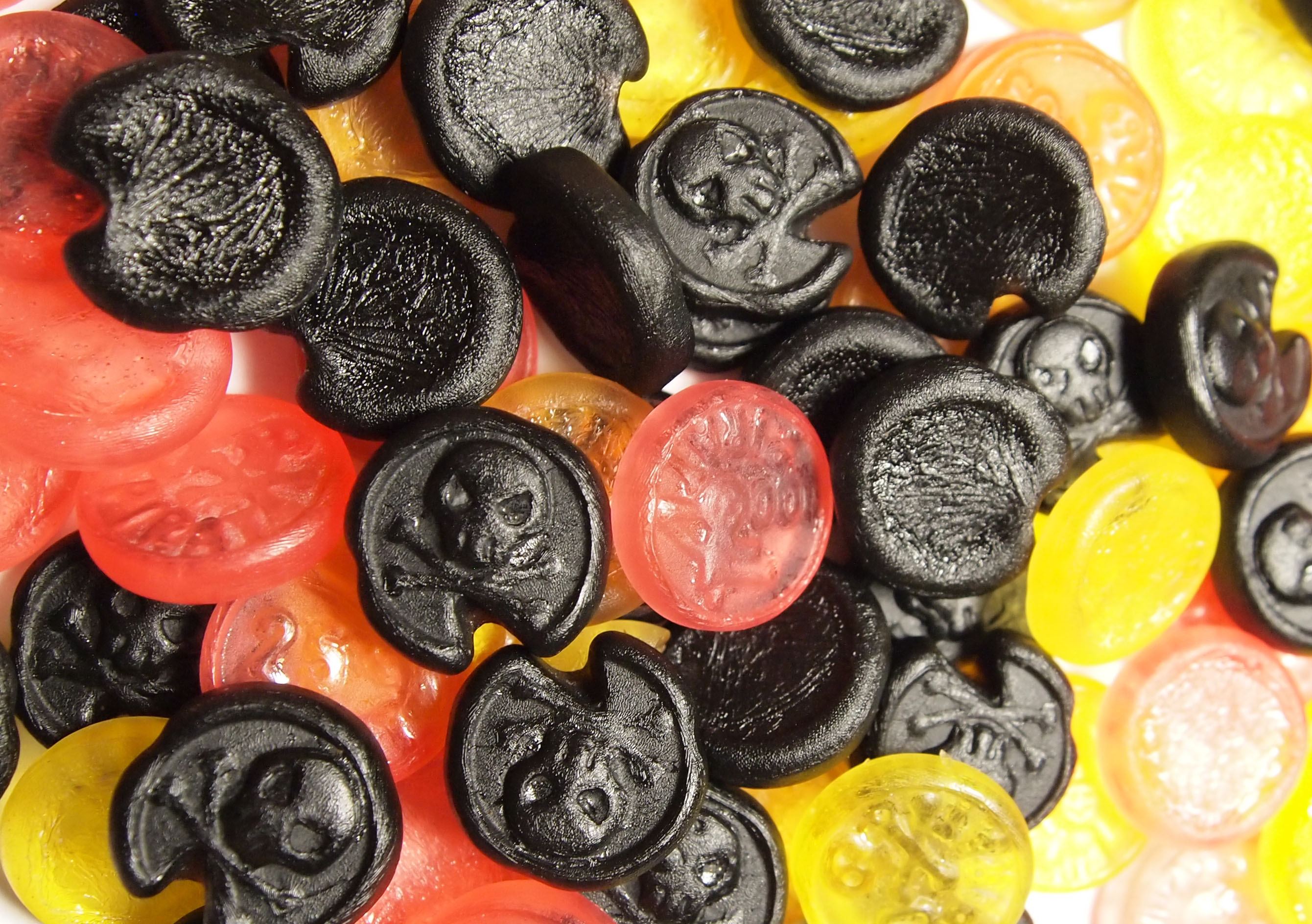 Candy assortment "Merkkari Mix" including salmiak and fruit flavoured candies manufactured by Fazer.